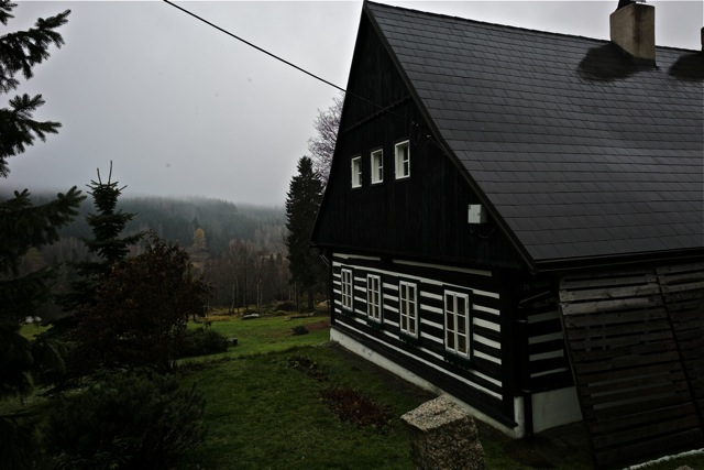 Chalupa c.p. 48